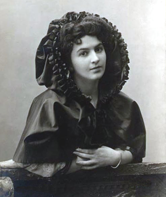 Maria Kuznetsova, the opera singer, in costume about 1910